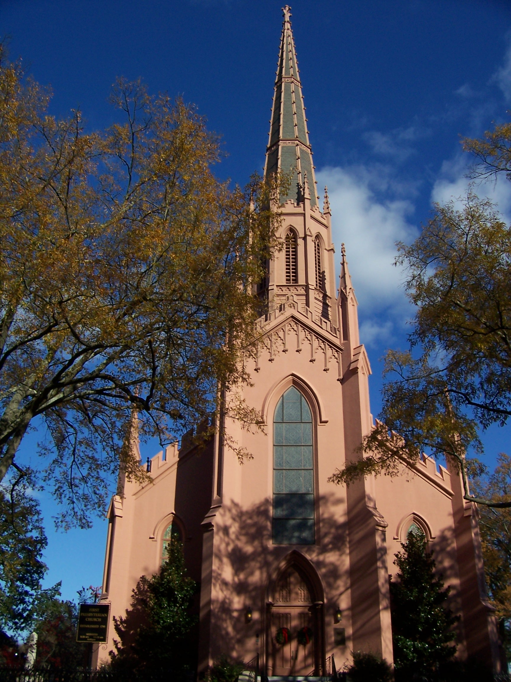 The front (Marion Street) elevation of First Presbyterian Church in Columbia, South Carolina. This shot is tricky to take because there is not enough room to capture the entire building without a fisheye lens, and there is generally shade from one direction or another.